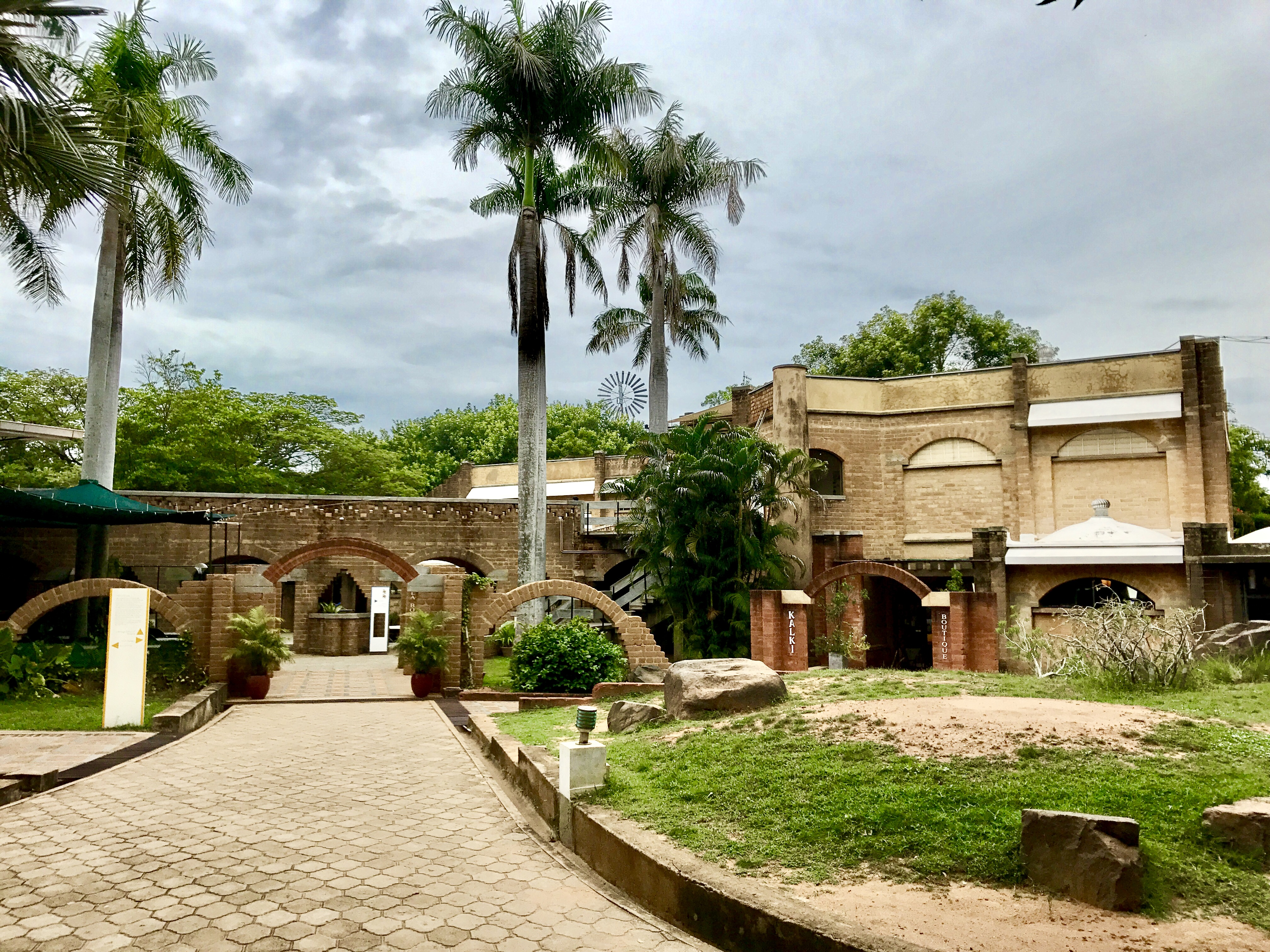 Auroville Township